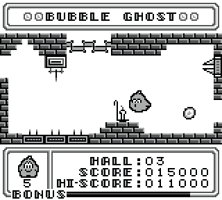 Level 3 screenshot of the Game Boy video game Bubble Ghost. Game Boy version released in 1990, author: Christophe Andréani.